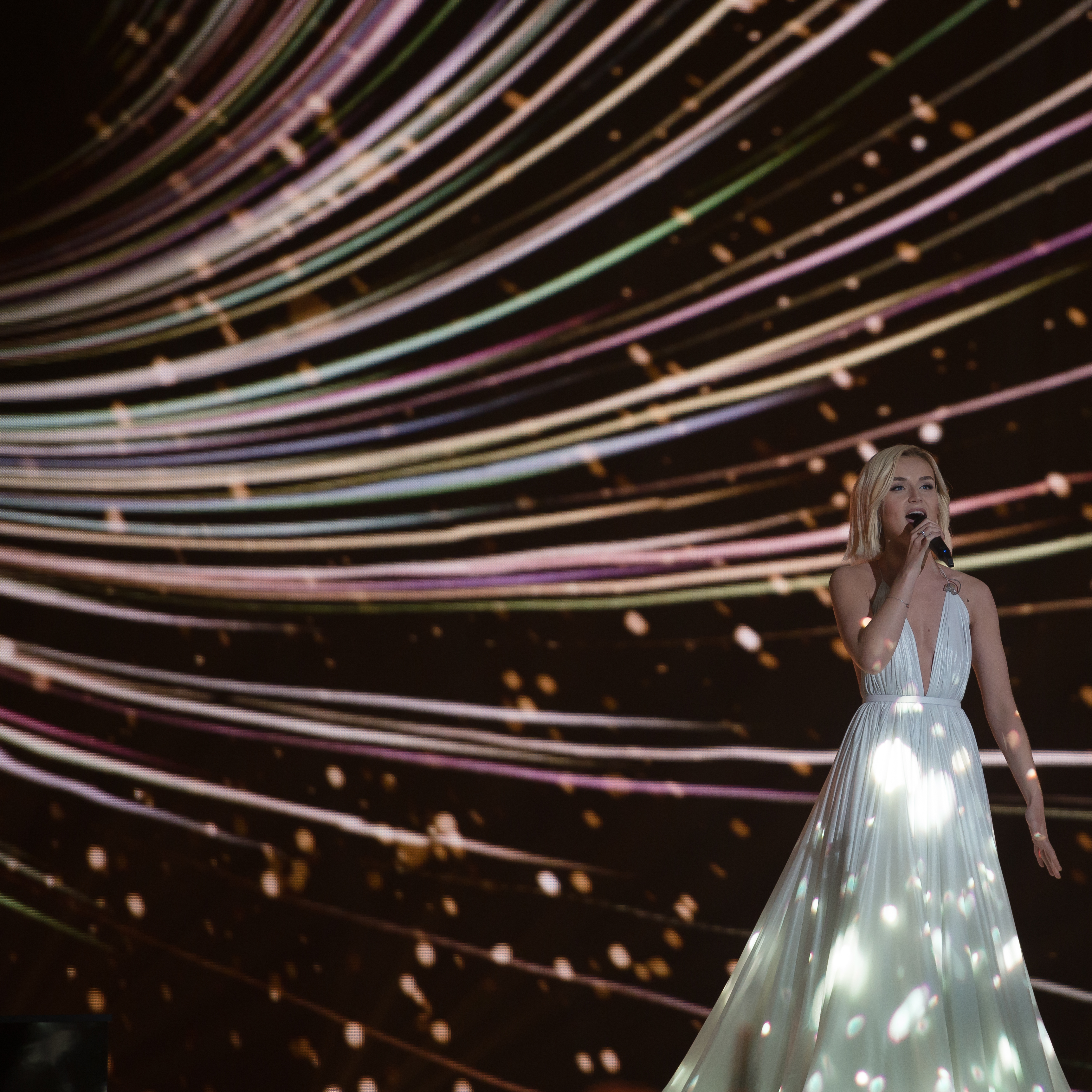 Eurovision Song Contest Vienna 2015: Polina Gagarina